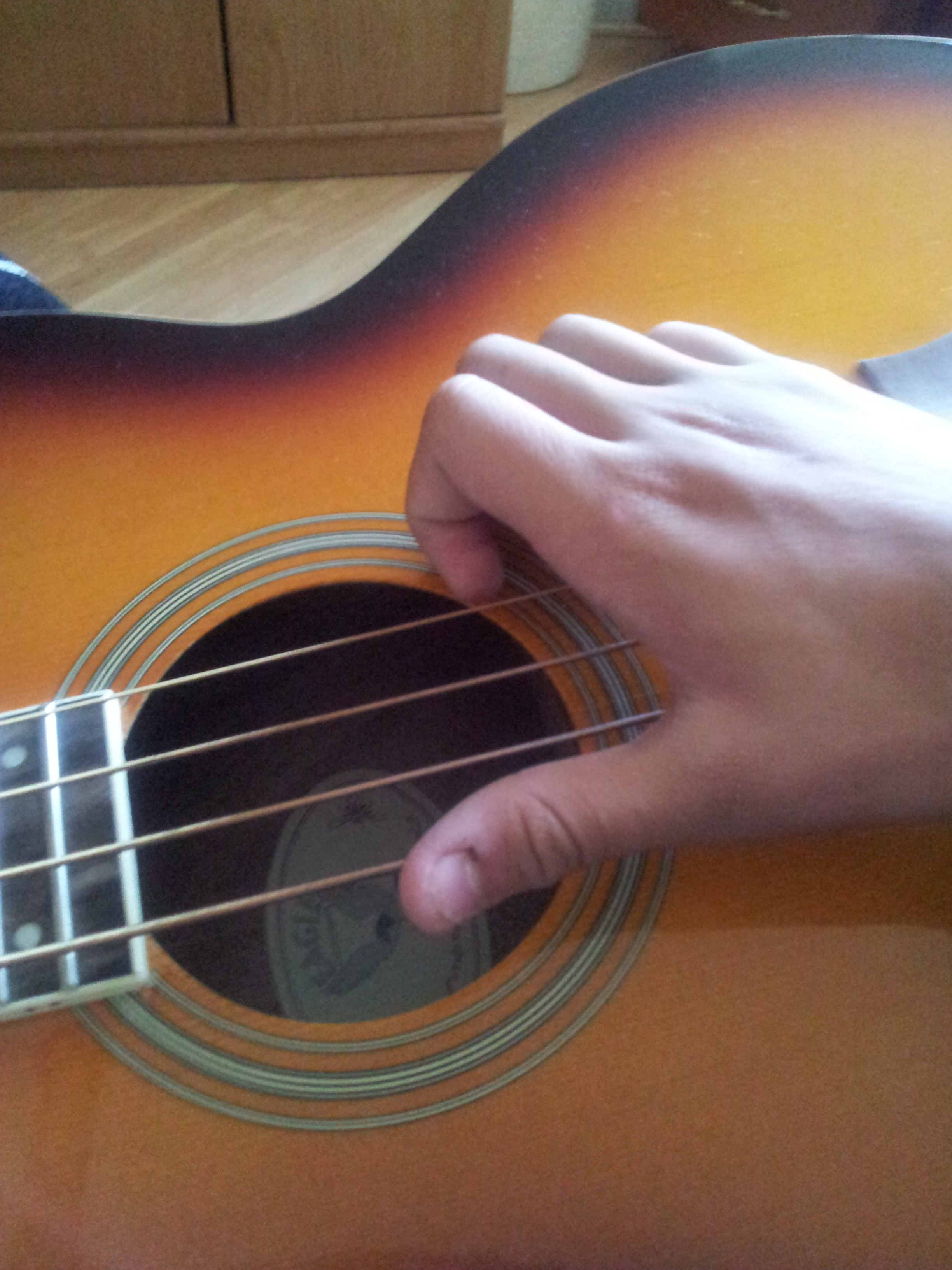 This is my hand showing the position of the right hand for slapping in a bass guitar, it was a photograph taken by a Samsung Galaxy S2